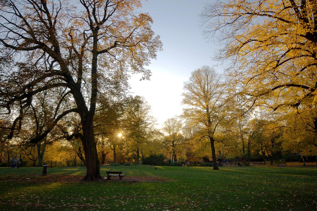 Herbst. - Sternschanzenpark in fall 2009